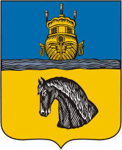 Coat of arms of Kologriv, Kostroma Oblast (1779).